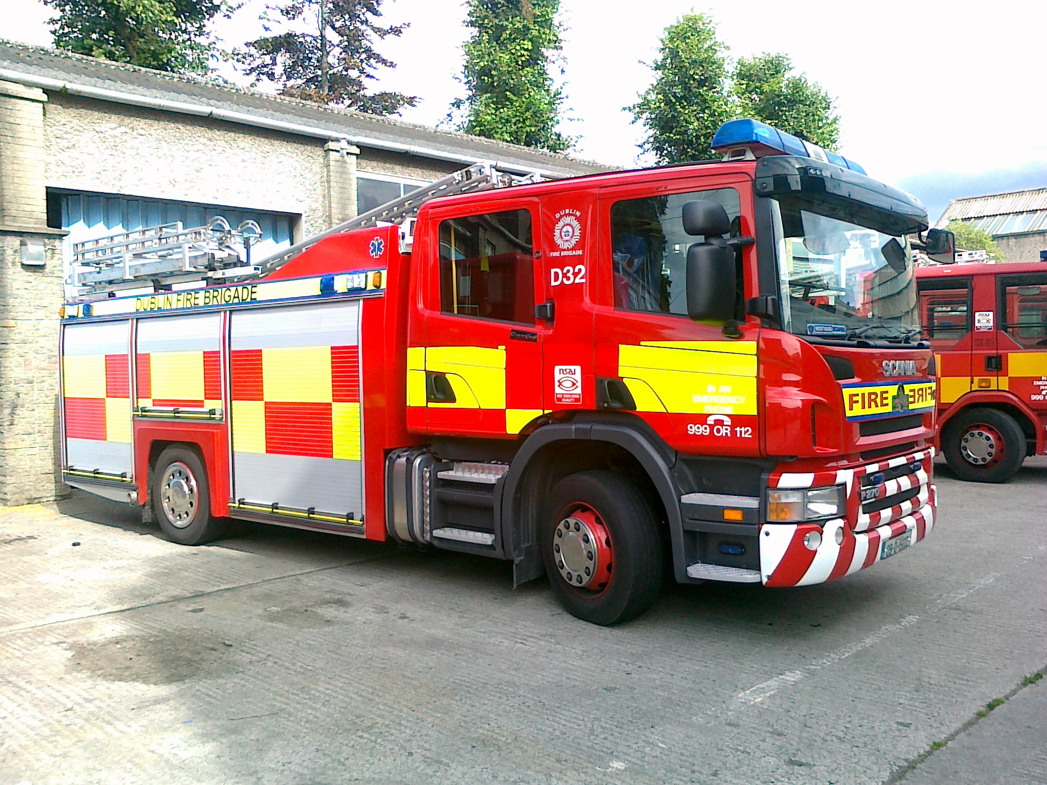 Dublin Fire Brigade Scania Fire Appliance